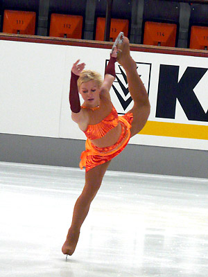 Andrea Kreuzer during her free skate at the 2007 Nebelhorn Trophy.